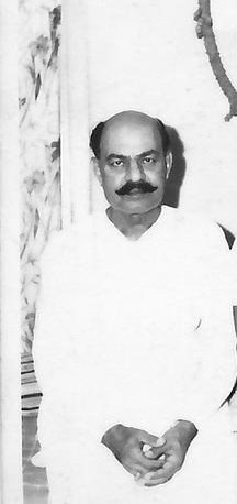 Dabir Khan sahab